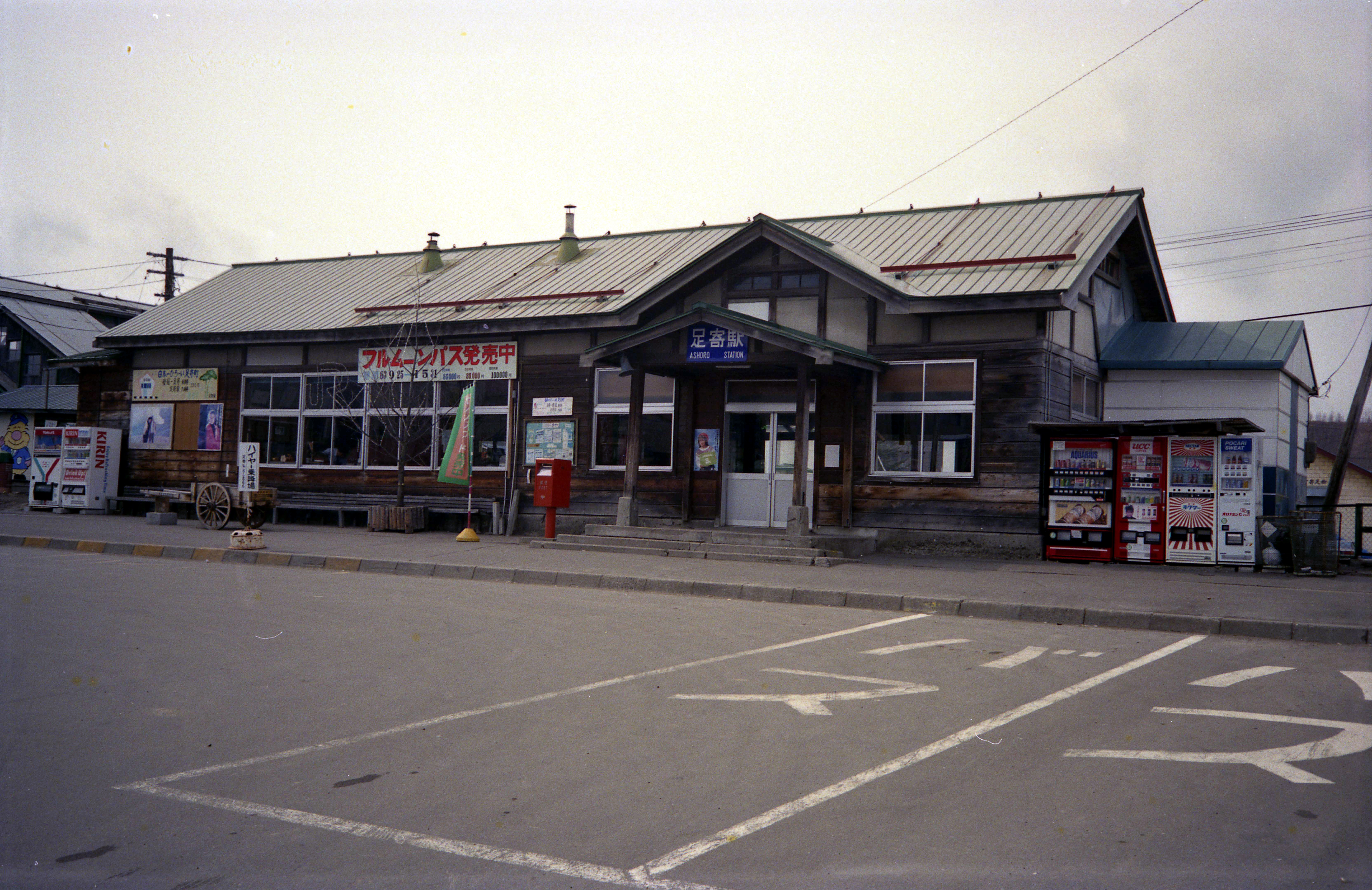 Ashoro Station on JR Hokkaido Chihoku Line (before abolished)